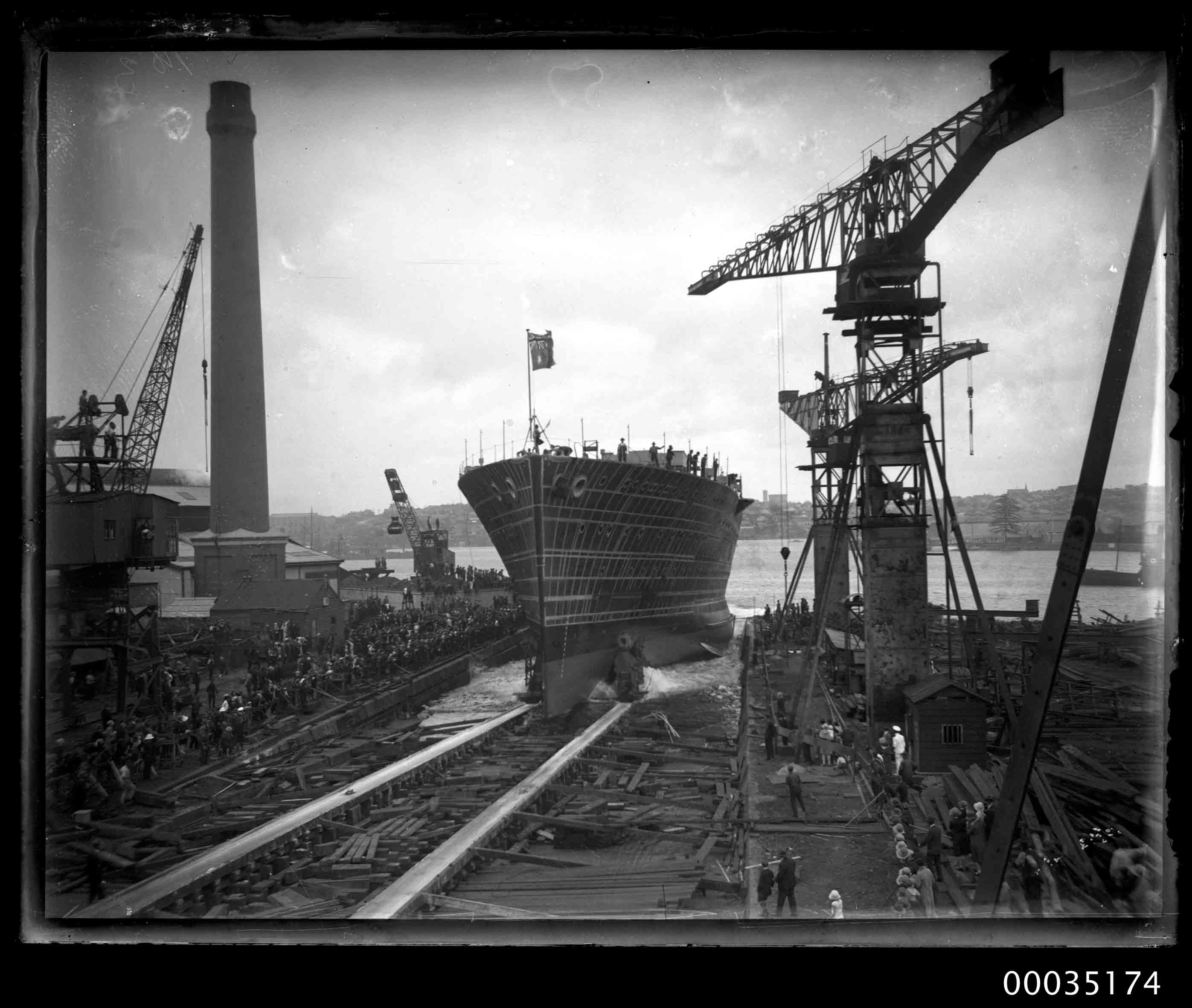 This photograph depicts the launch of the Royal Australian Navy's first seaplane carrier HMAS ALBATROSS I on 23 February 1928 at Cockatoo Island Dockyard in Sydney. This photo is part of the Australian National Maritime Museum’s Samuel J. Hood Studio collection. Sam Hood (1872-1953) was a Sydney photographer with a passion for ships. His 60-year career spanned the romantic age of sail and two world wars. The photos in the collection were taken mainly in Sydney and Newcastle during the first half of the 20th century. The ANMM undertakes research and accepts public comments that enhance the information we hold about images in our collection. This record has been updated accordingly. Photographer: Samuel J. Hood Studio Collection Object no. 00035174